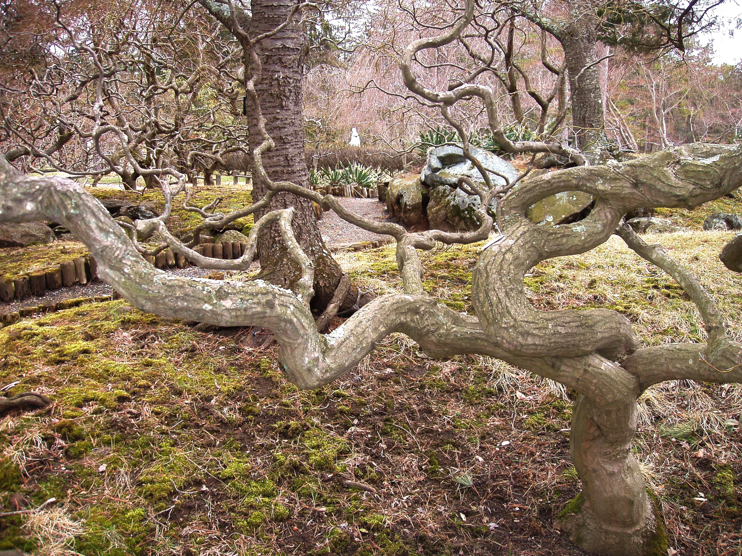 Japanese Garden in early spring, Georgian Court University, Lakewood, New Jersey, USA.